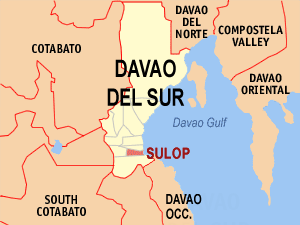 Map of the Davao del Sur showing the location of Sulop